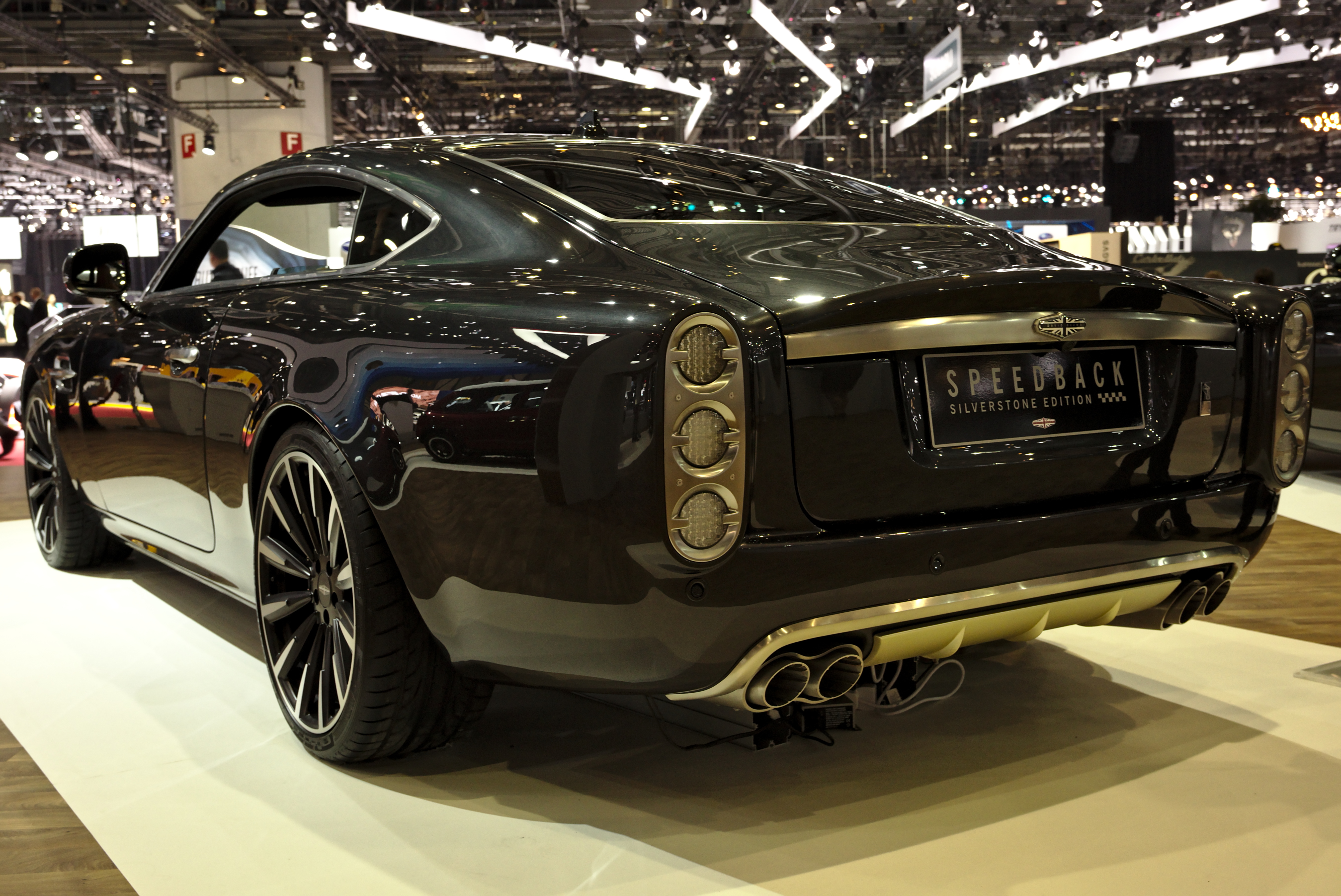 David Brown Speedback Silverstone Edition at Geneva Motorshow 2018